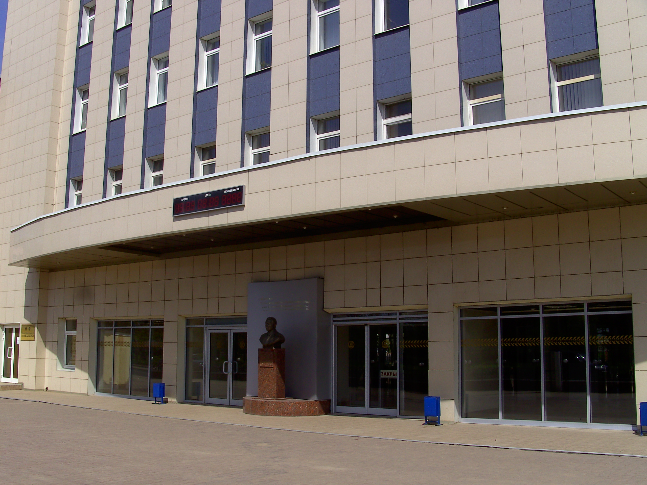 Центральные проходные